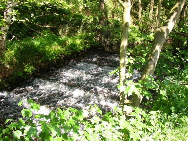 Cascade on the Black Brook, Barkisland, Calderdale, West Yorkshire